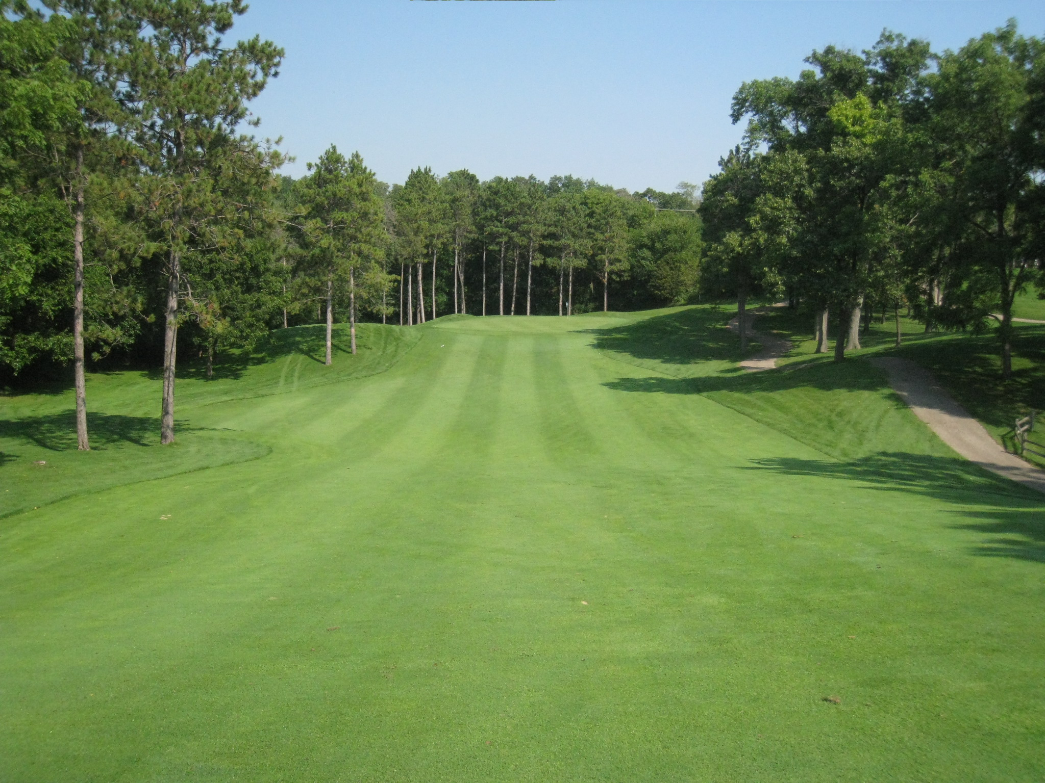 Fairway